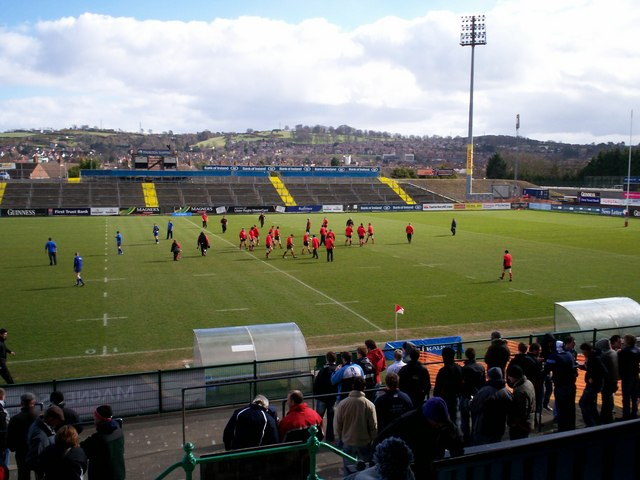 Ravenhill Rugby Ground, Belfast